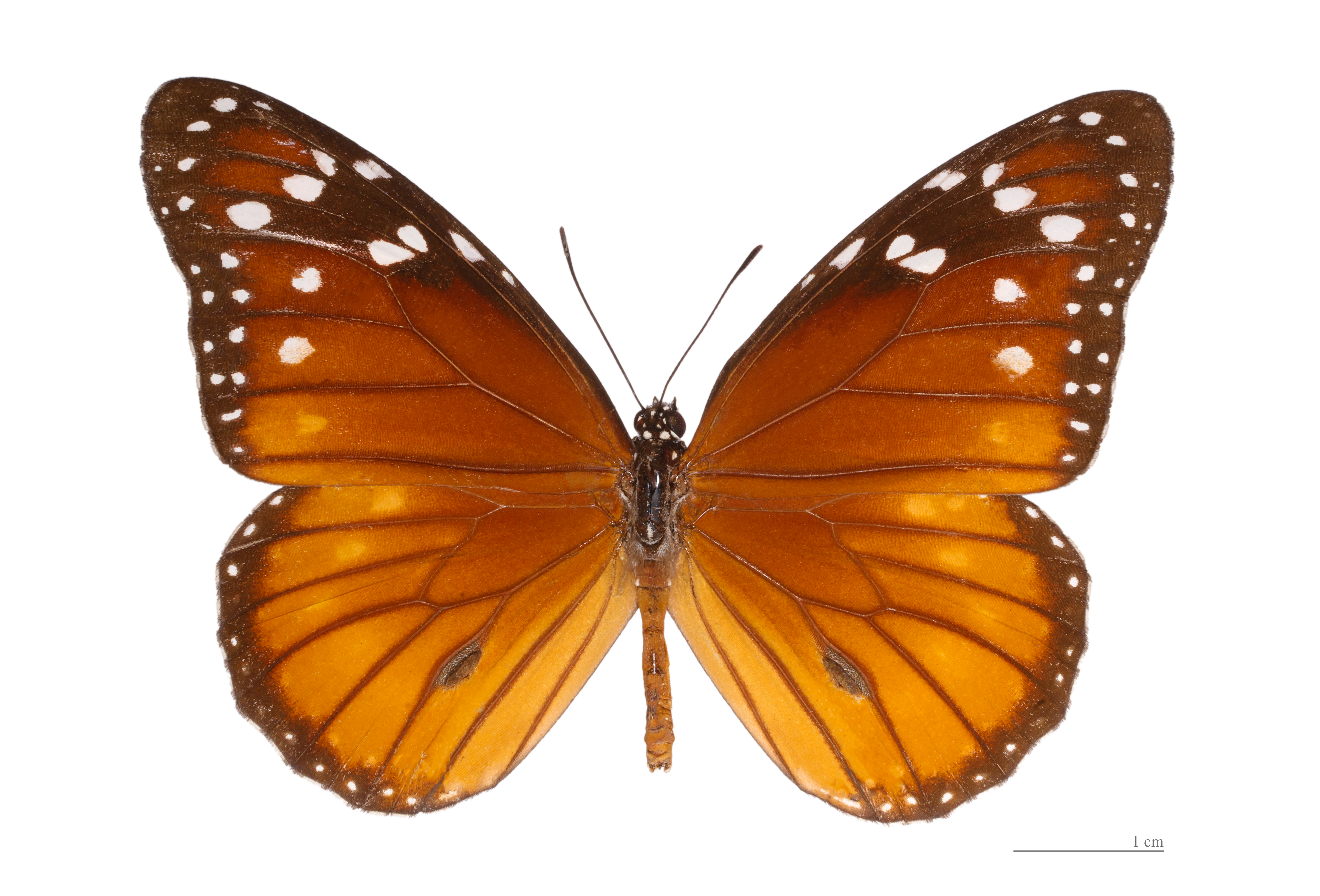 ♂ - Dorsal side Locality: Le Larivot, Cayenne, French Guianna.